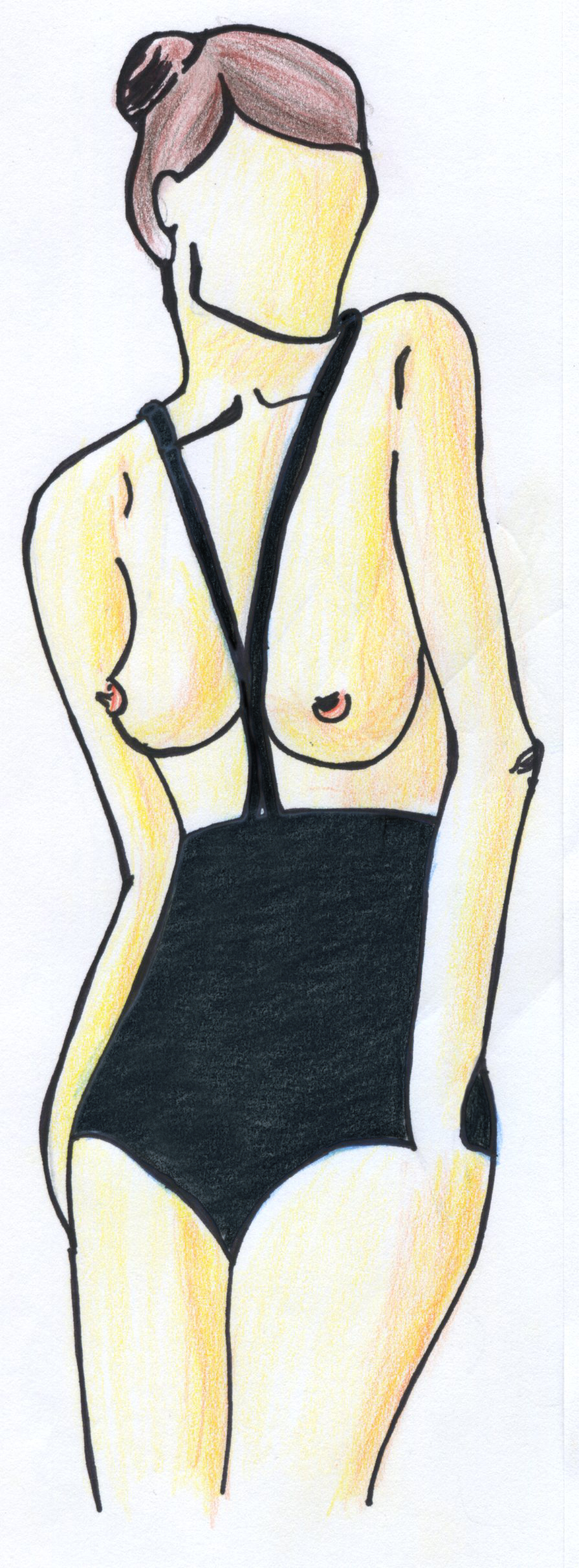 Black monokini.